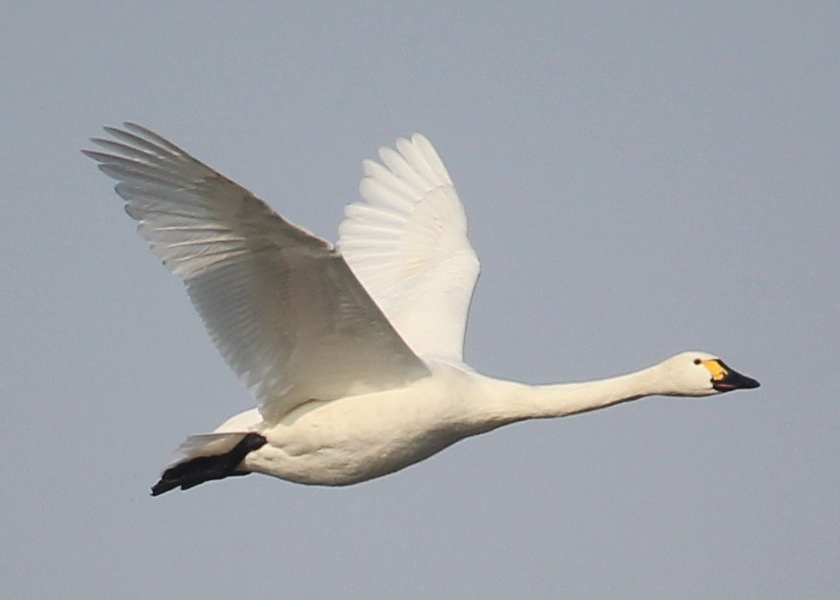 Cygnus columbianus bewickii in flight in Aichi prefecture, Japan.